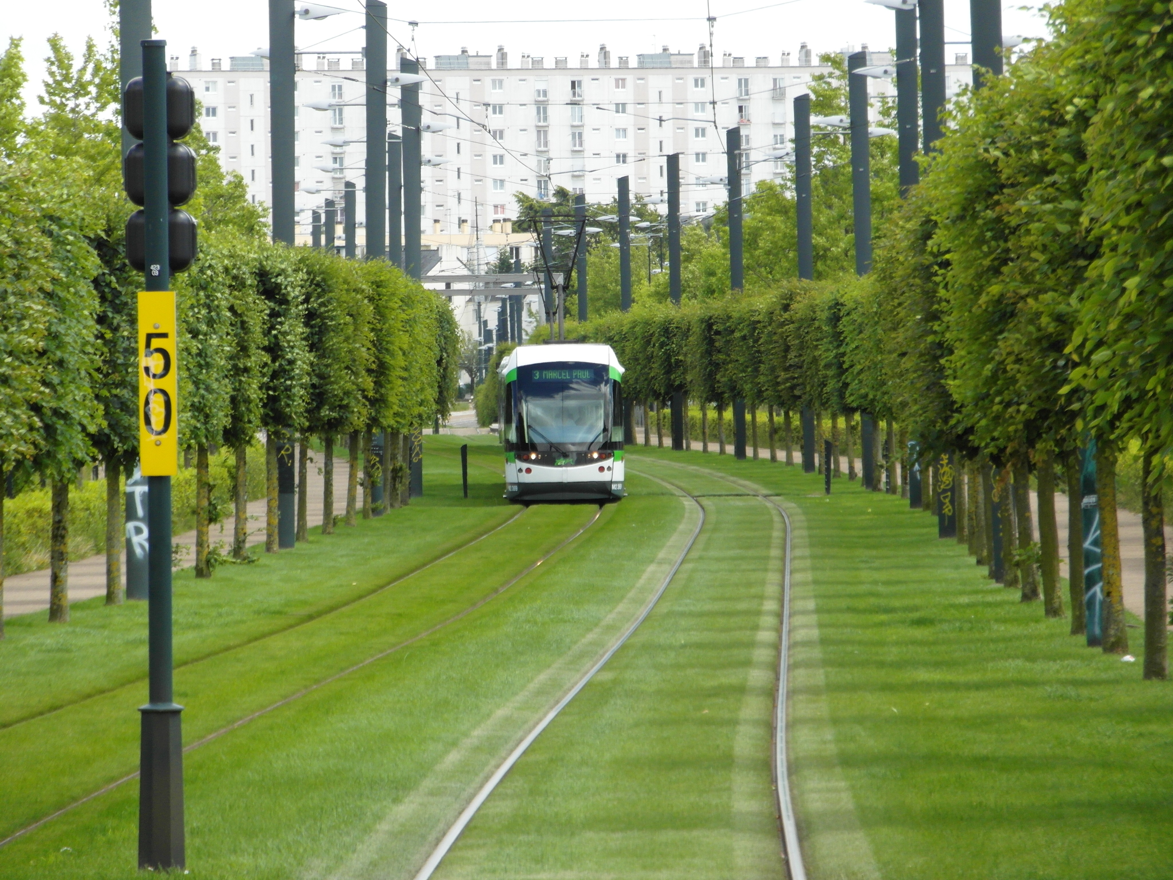 Nantes - Tramway - Ligne 3 - Orvault